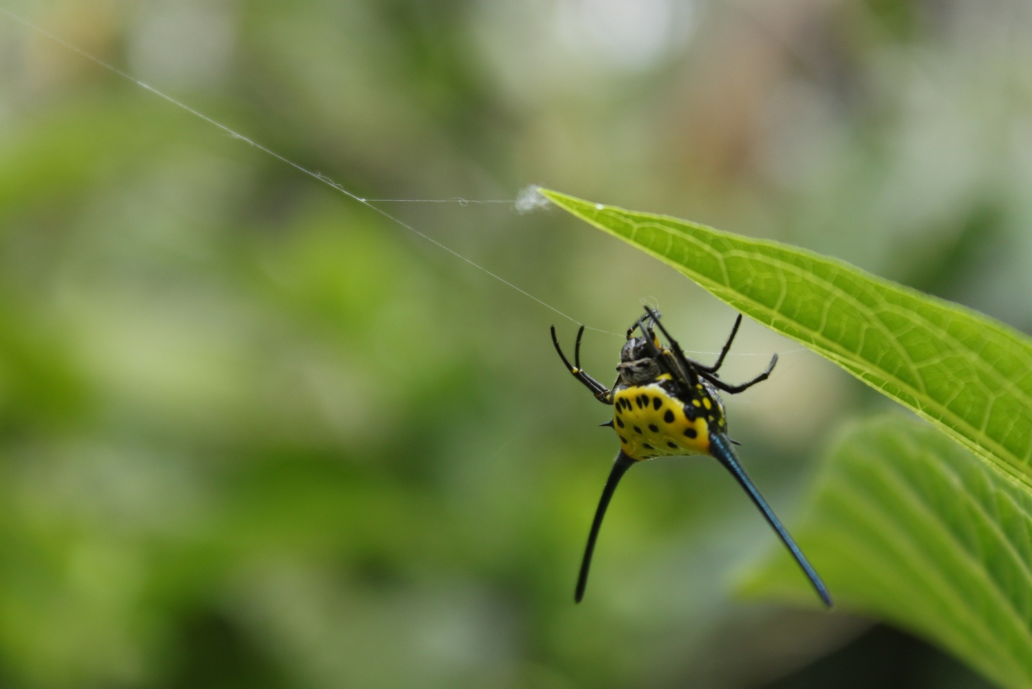 spider